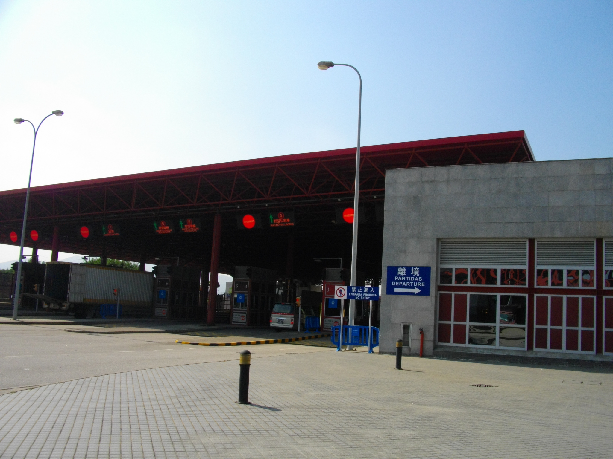 Cotai Checkpoint